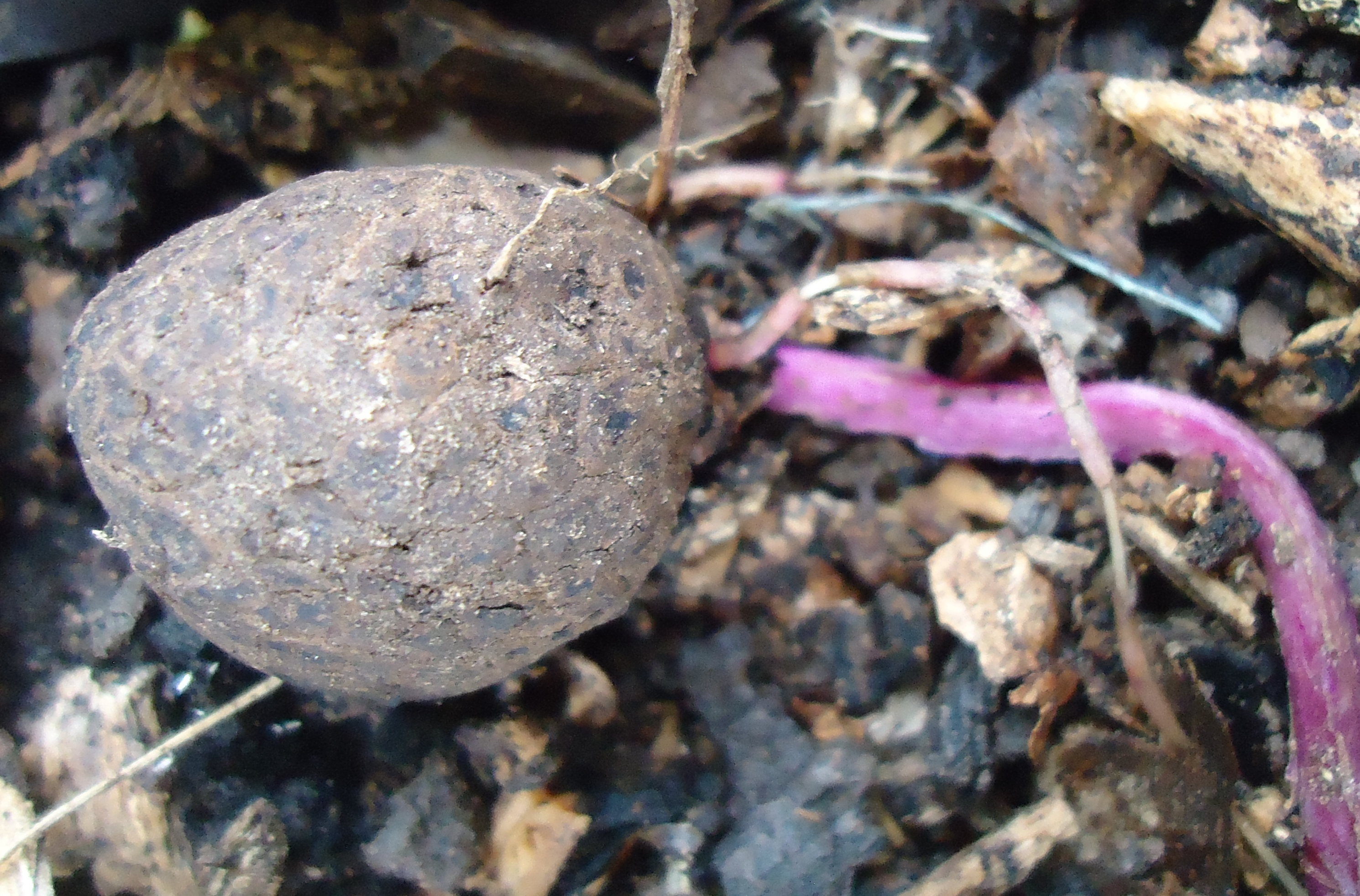 Dioscorea alata (Purple yam) tuber. Mindanao, Philippines. Locally known as ube (pronounced "ooh-beh" or "ooh-bee").